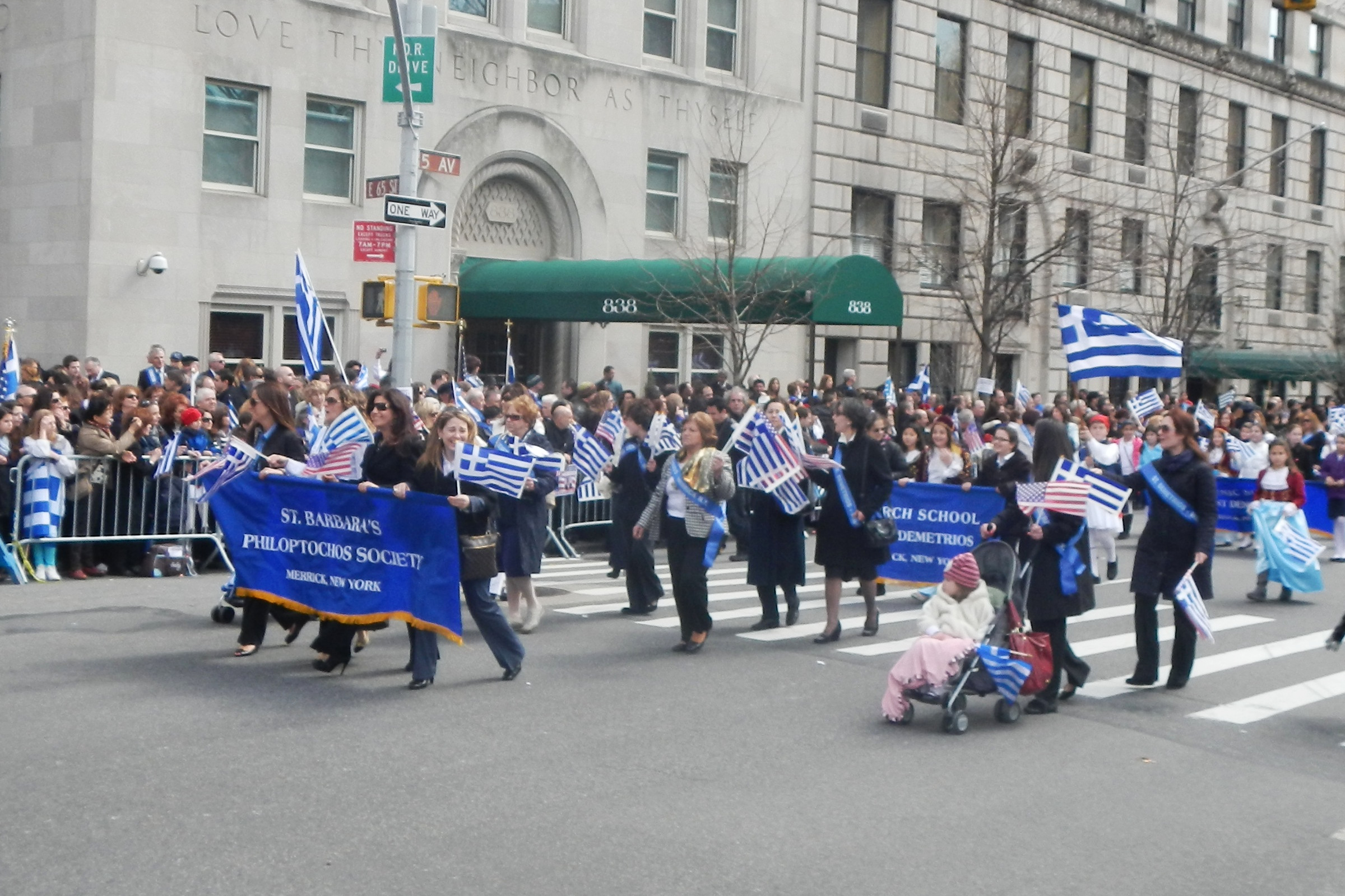 Looking southeast across 5th Avenue at Merrick orthodox school celebration on a cloudy day.